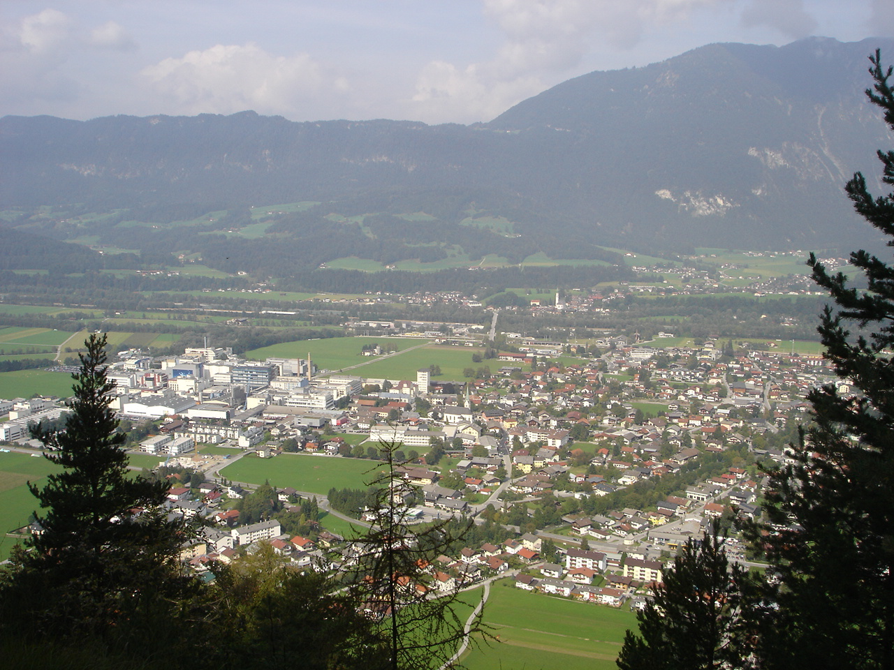 A view of Kundl from the Hahntax hiking route.